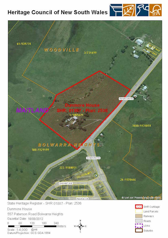 Dunmore House: SHR Plan 2536